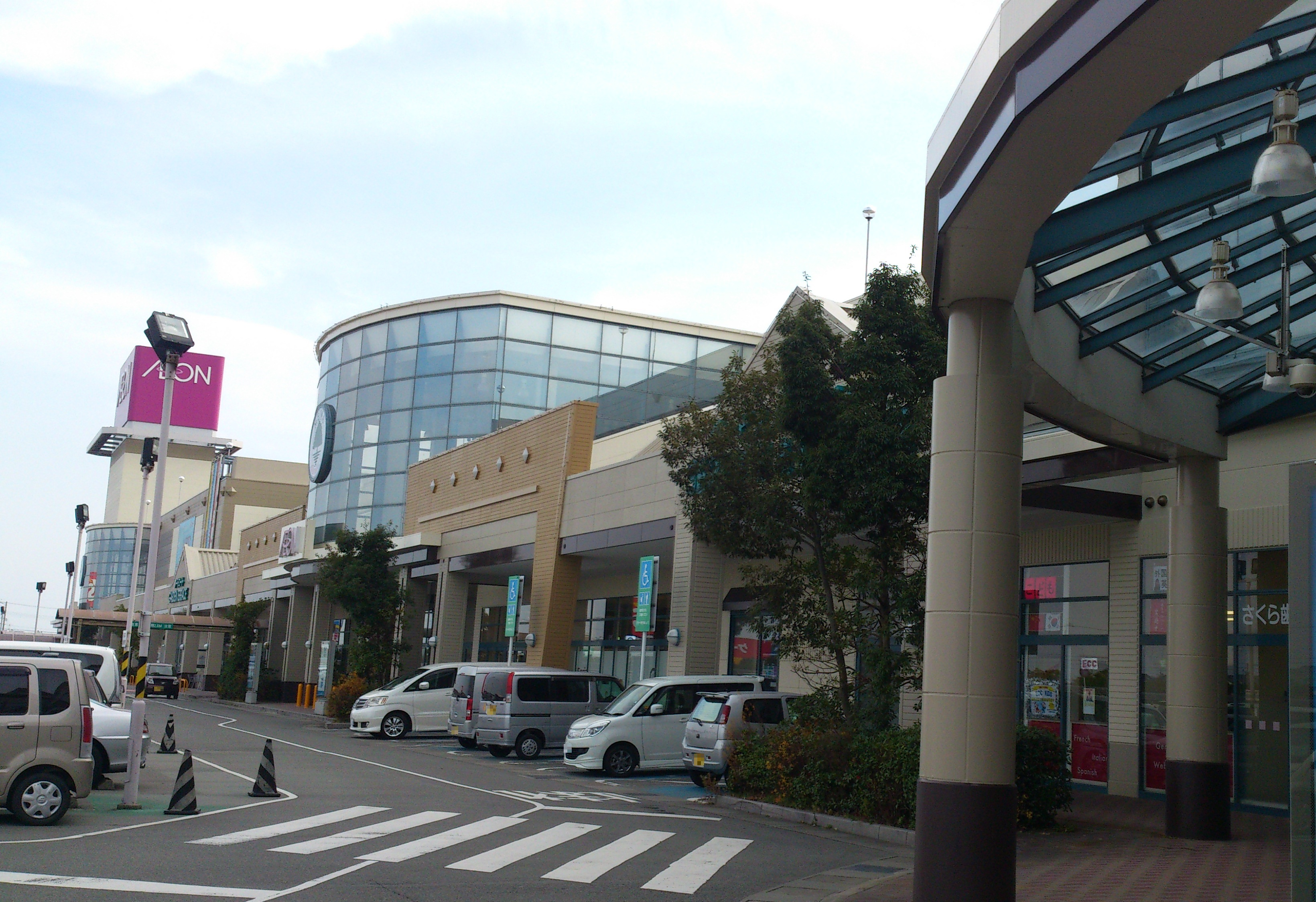 This is the ÆON Mall Meiwa, which is located in Meiwa, Taki, Mie, Japan. It was renewed in November 1, 2013.